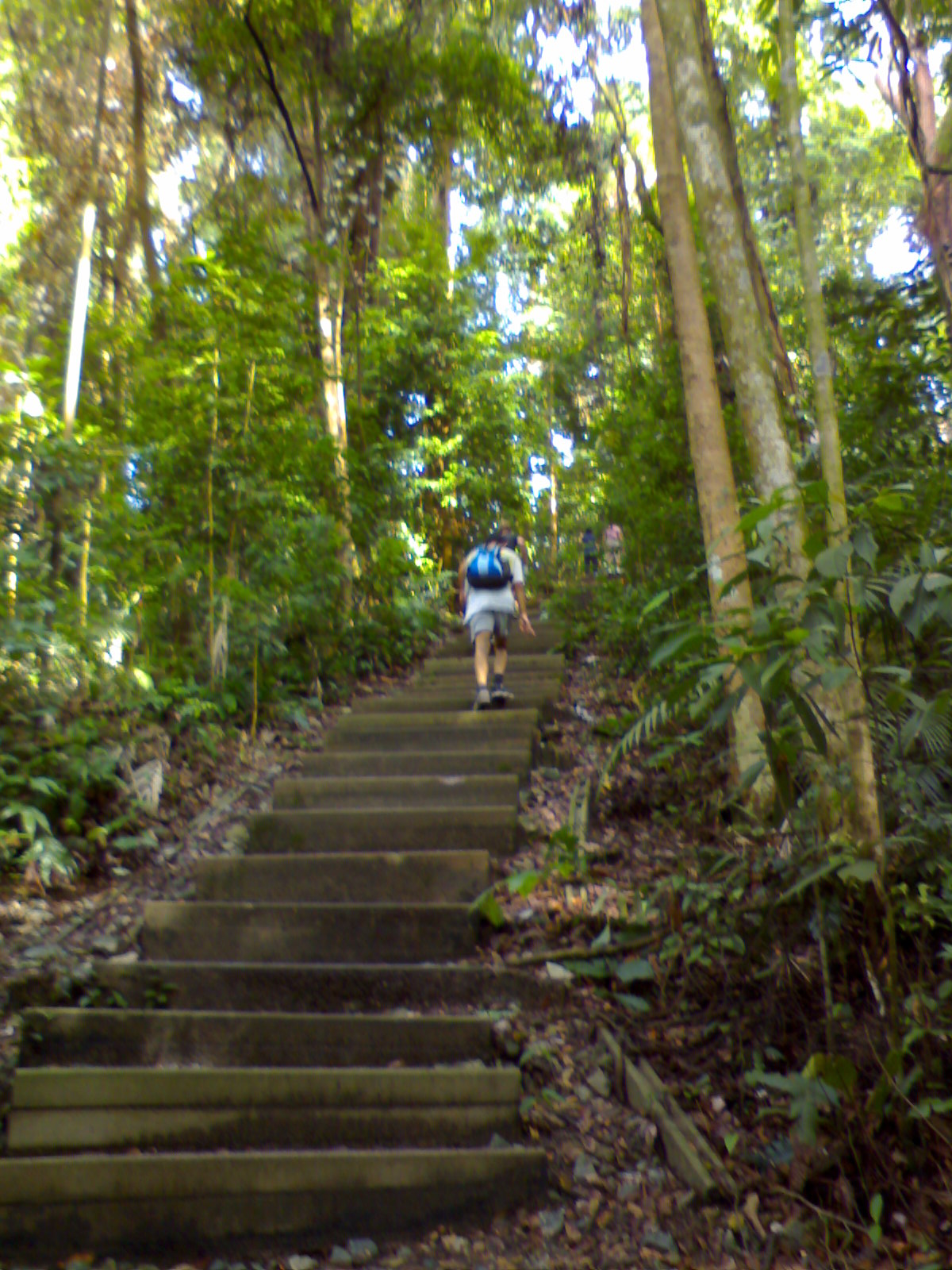 Steps up to the summit of Bukit Timah Hill, Singapore.